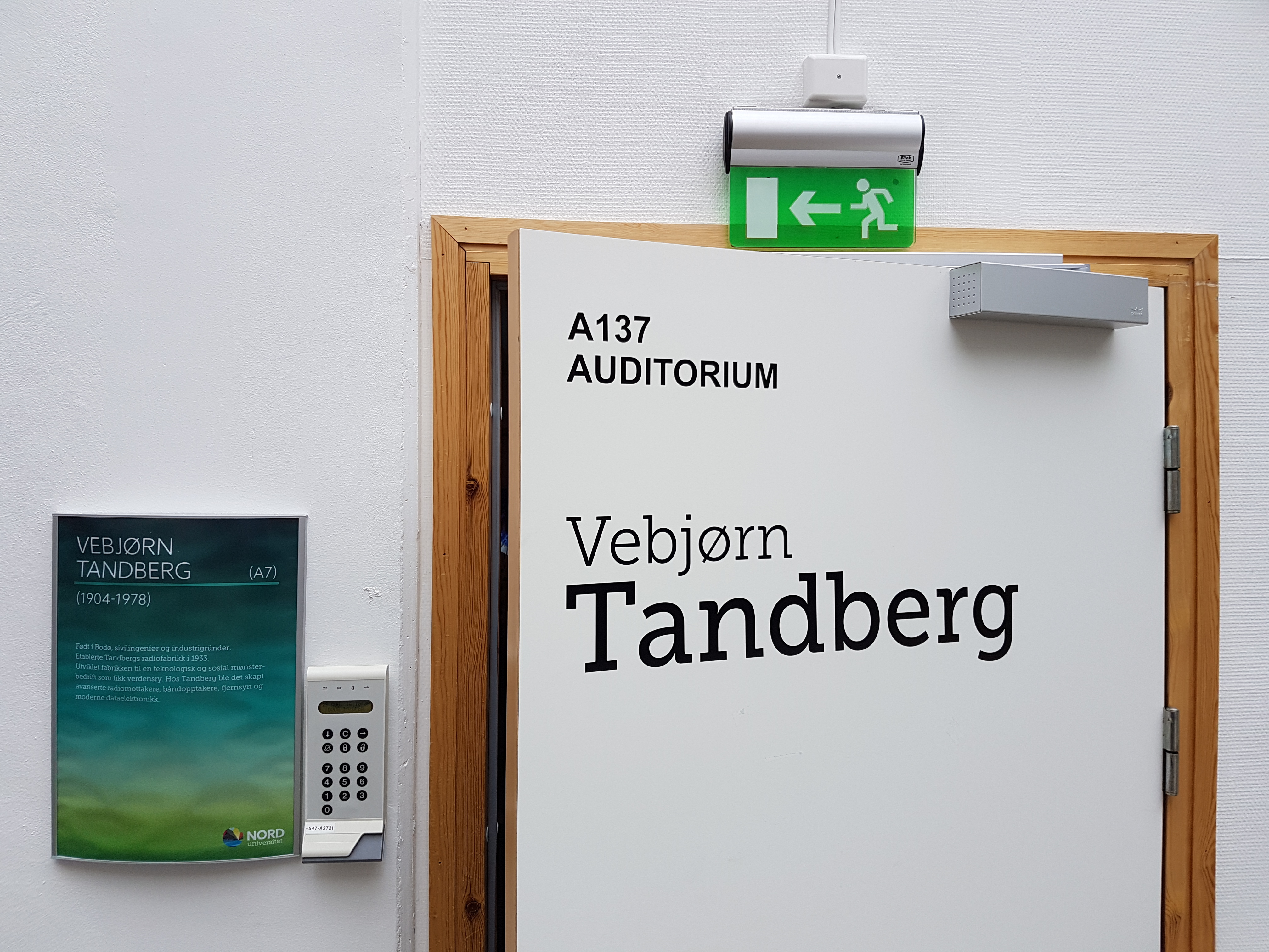 Lecture hall at Nord University named after Tandberg. Inscription: VEBJØRN TANDBERG (1904-1978) Born in Bodø, engineer and industry founder. Established Tandbergs radiofrabikk in 1933. Developed the factory into a technological and social model company that received world reputation. At Tandberg advanced radios, tape recorders, televisions and modern computer electronics were created.